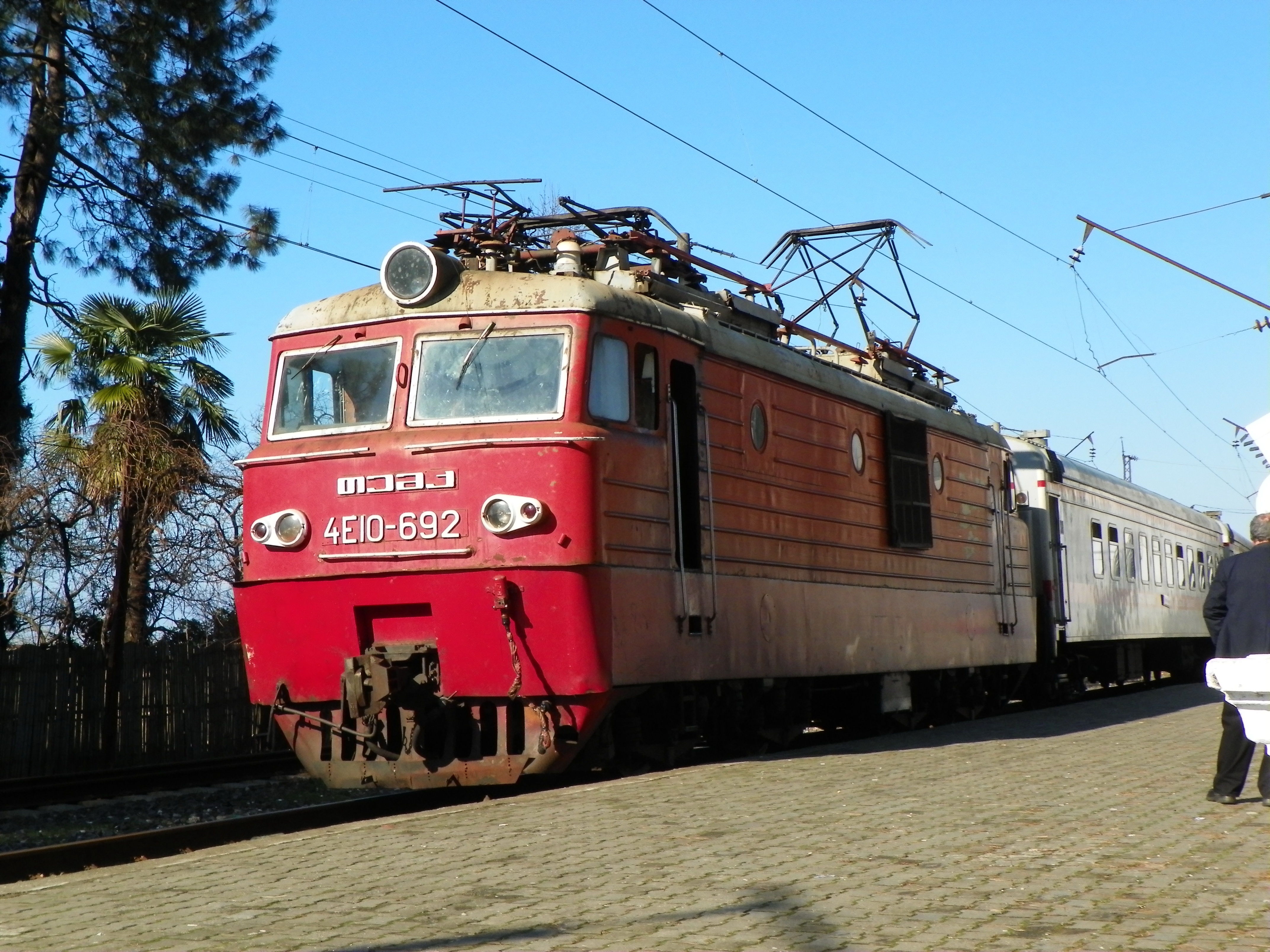 4E10-692 electric locomotive at Makhinjauri train station